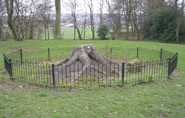 Photo of fossil tree in Bowling Park Bradford. extracted from local coal mine.